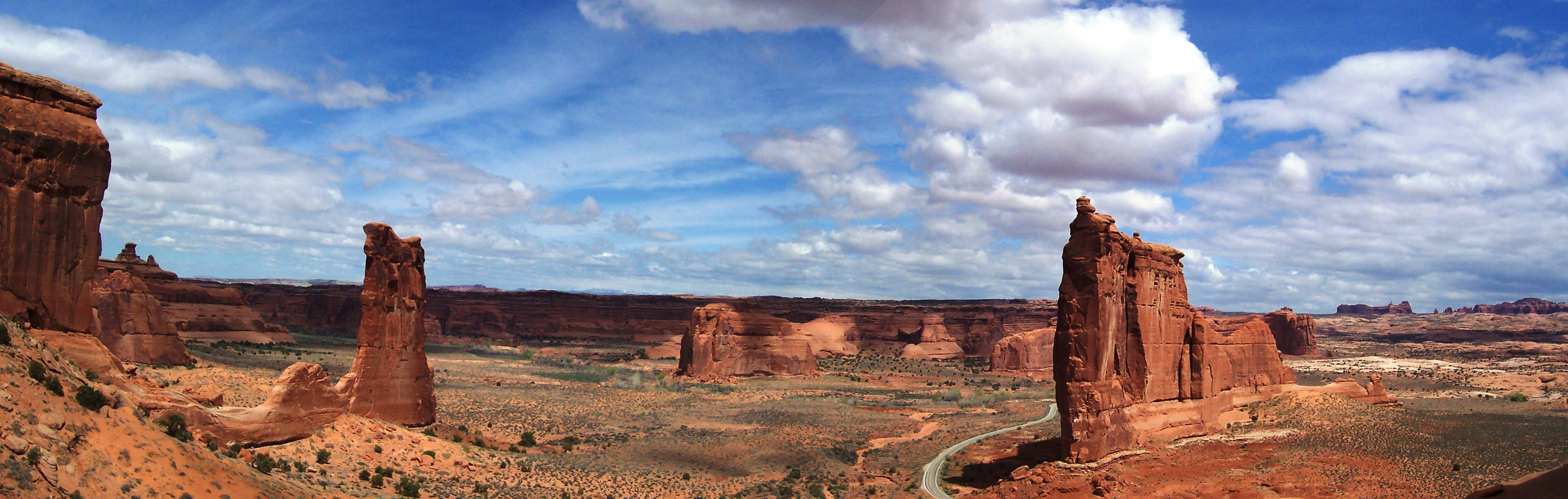 Tower of Babel in Arches National Park near Moab, Utah. Panorama created with Hugin software.